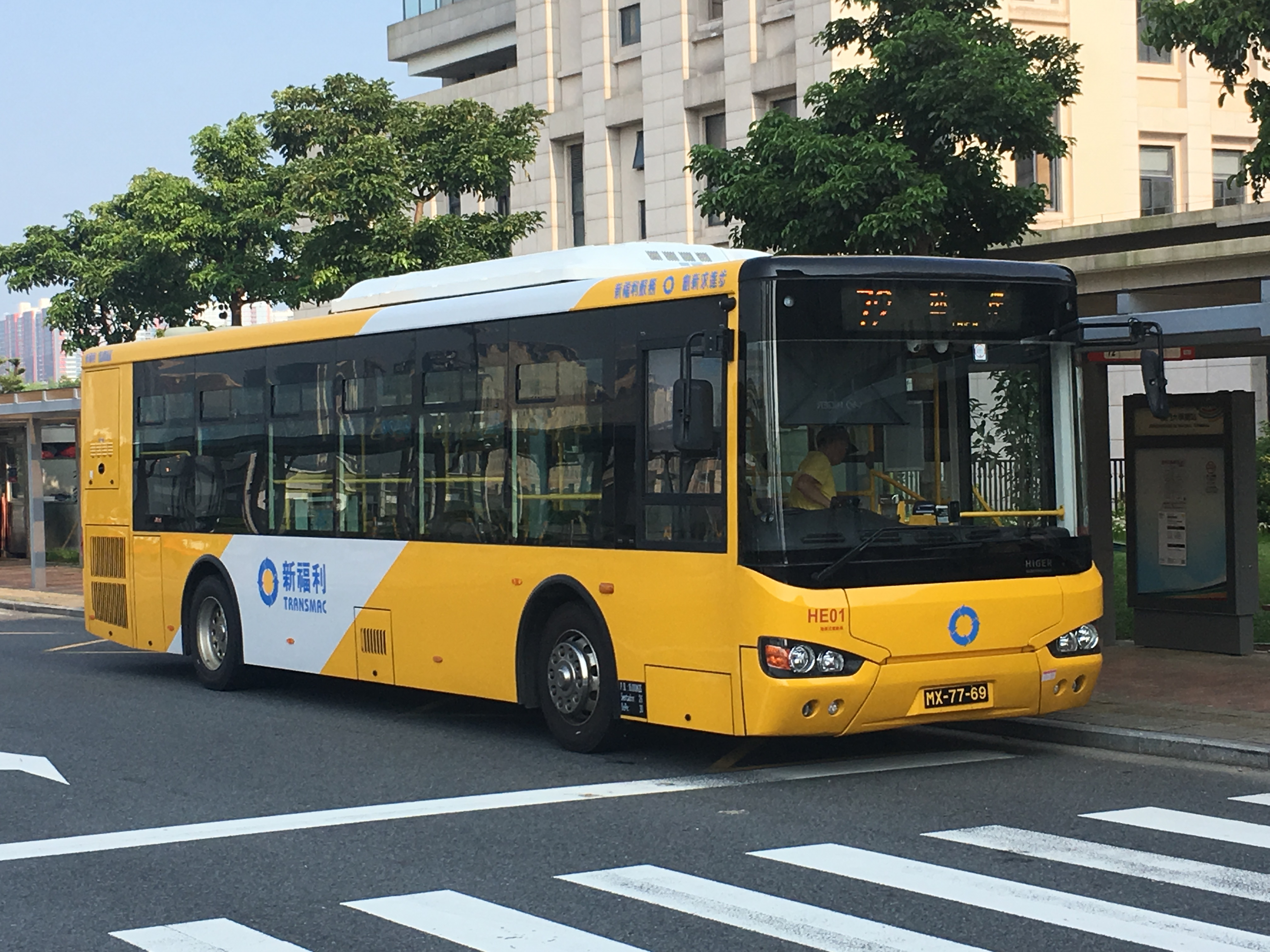 中文（香港）: This photo is taken in Macau University.